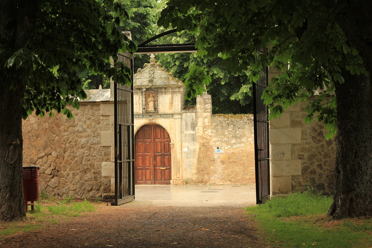 University of Burgos Campus - Hospital del Rey - Camino de Santiago